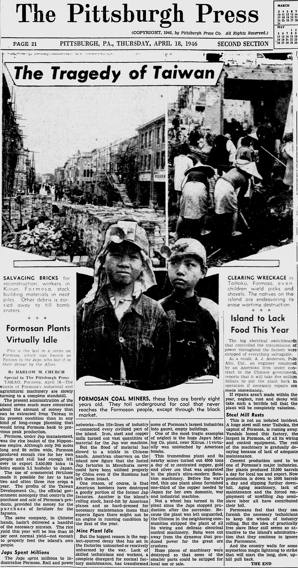 匹茲堡新聞關於戰後臺灣之報導